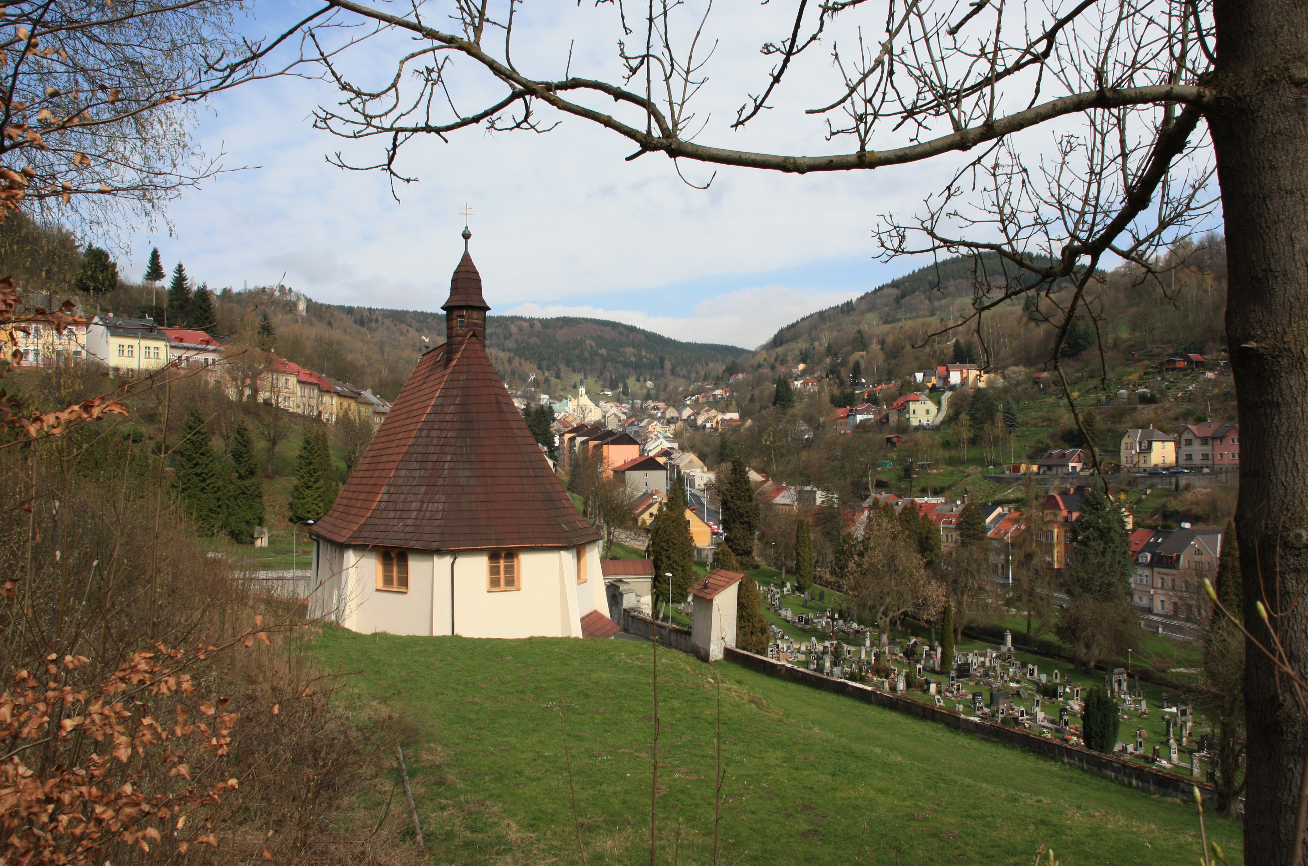 Kostel Všech svatých, Jáchymov, Czech Republic